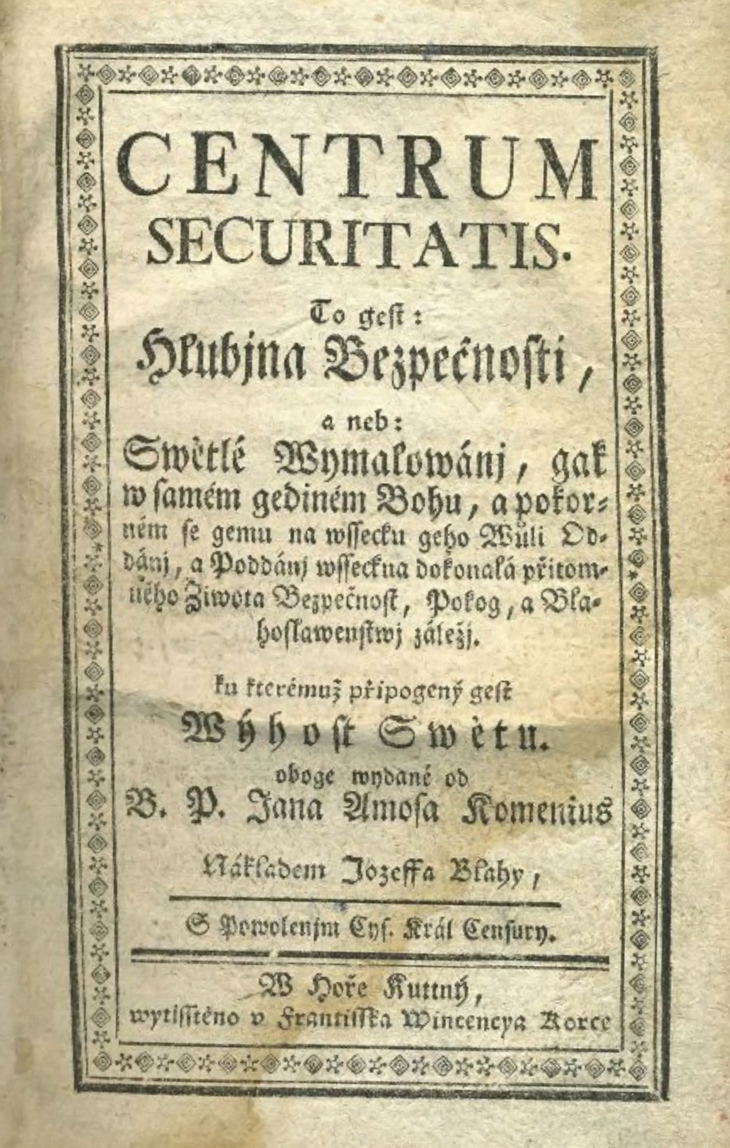 John Amos Comenius: Centrum securitatis. Cover of the edition 1785, Kutná Hora.